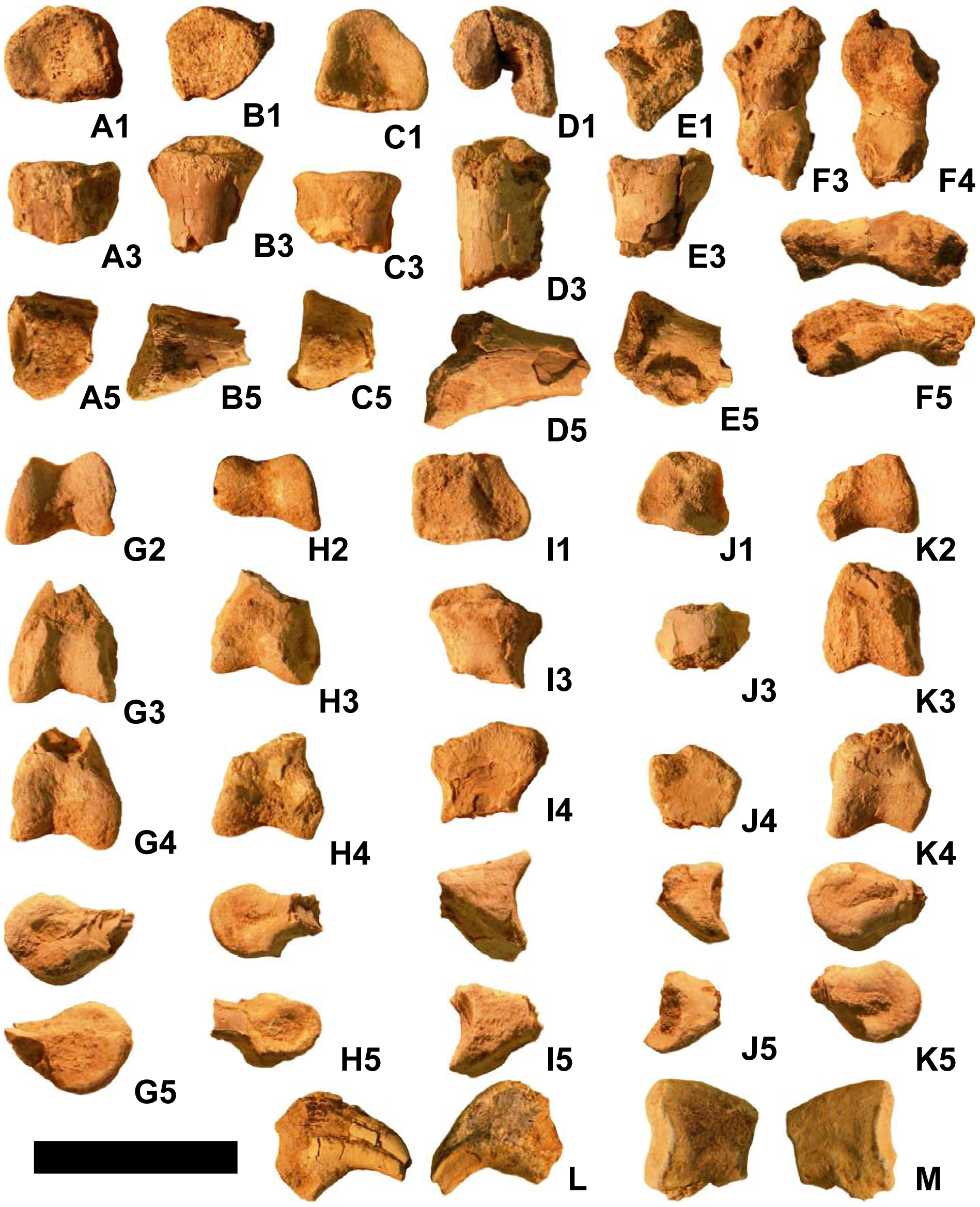 Pedal phalanges of Martharaptor greenriverensis (UMNH VP 21400). (A–K)–Unidentified phalanges. (L)–Ungual of digit I. (M)–Ungual of unidentified digit (II, III, or IV). Scale bar = 50 mm. Numbers on sub-figures refer to proximal (1), distal (2), dorsal (3), plantar (4), and side (5) views; for side views, whether the side is medial or lateral cannot be determined. Phalanx H articulates well with phalanx J, and phalanx G articulates well with phalanx I.